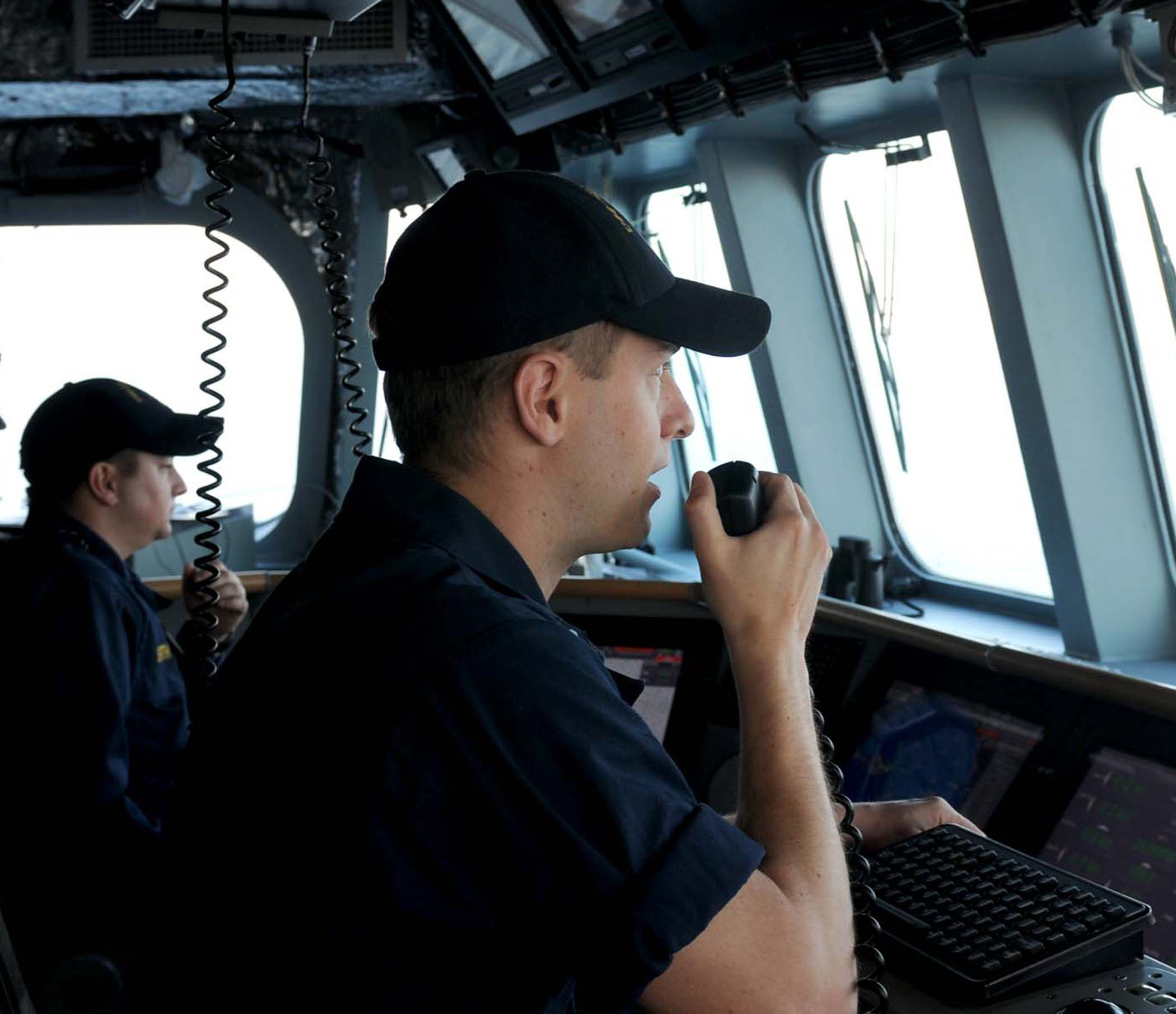 ATLANTIC OCEAN (April 2, 2010) Lt. j.g. Justin Guernsey communicates on the ship's VHF radio while standing watch on the bridge of the littoral combat ship USS Independence (LCS 2). Independence is in the Atlantic Ocean on her maiden underway. (U.S. Navy photo by Mass Communication Specialist 2nd Class Justan Williams/Released)